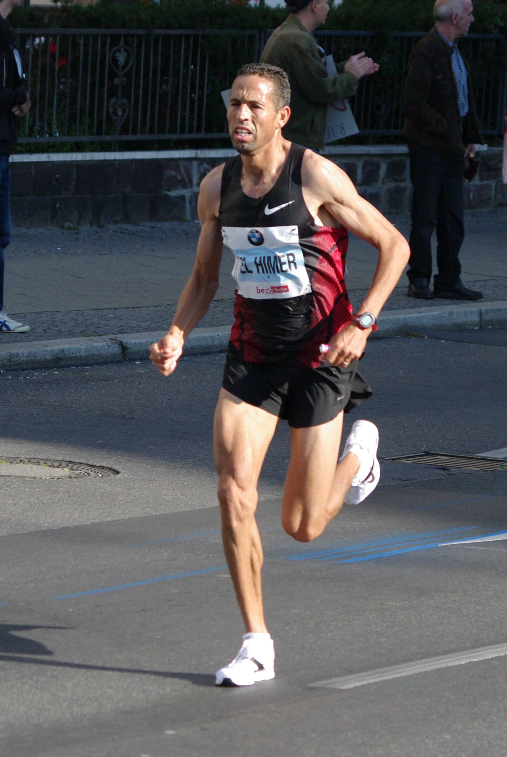 Driss El Himer running the Berlin Marathon 2011 at km 24, Innsbrucker Platz